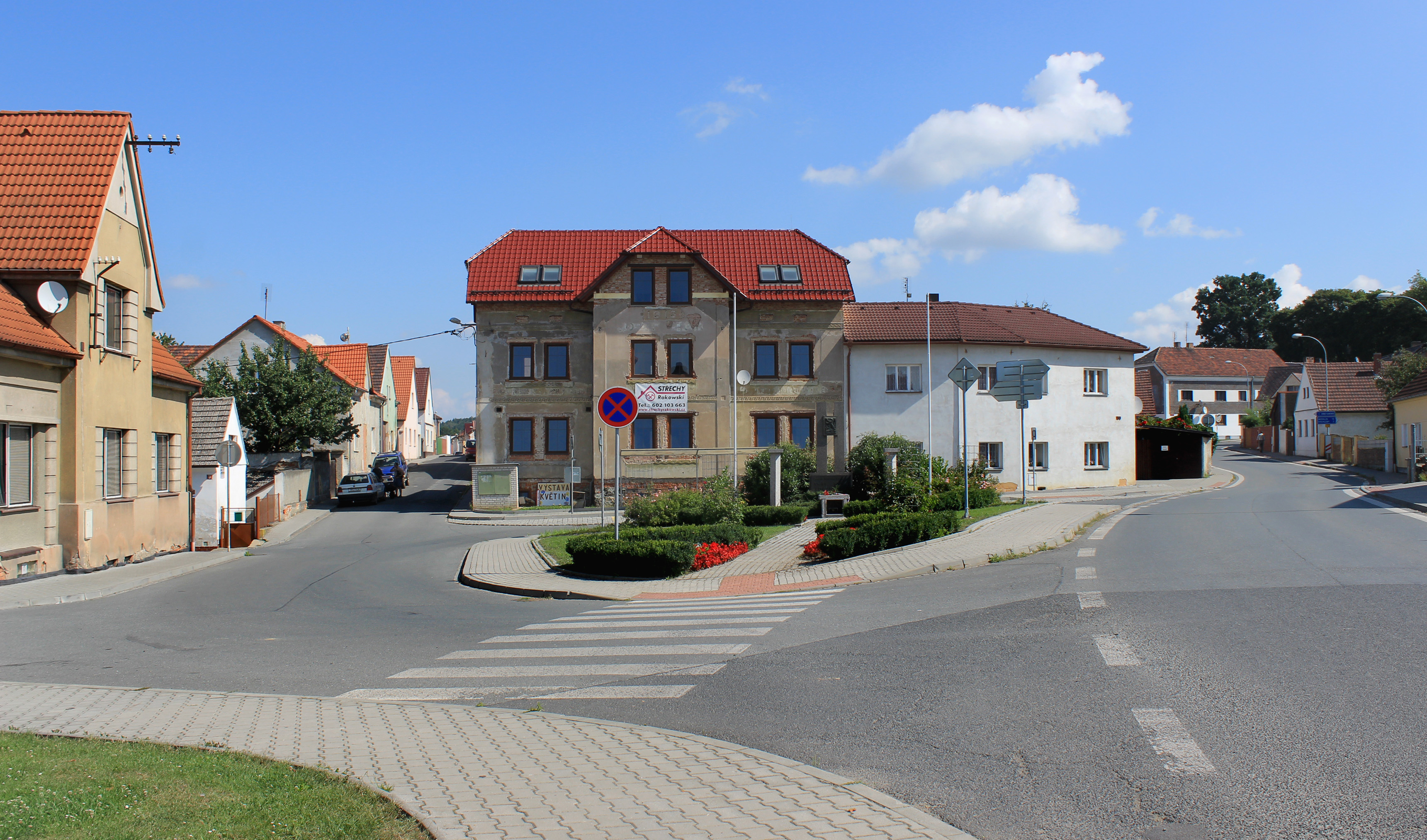 Dělnická street and Rašínova street in Staňkov, Czech Republic.